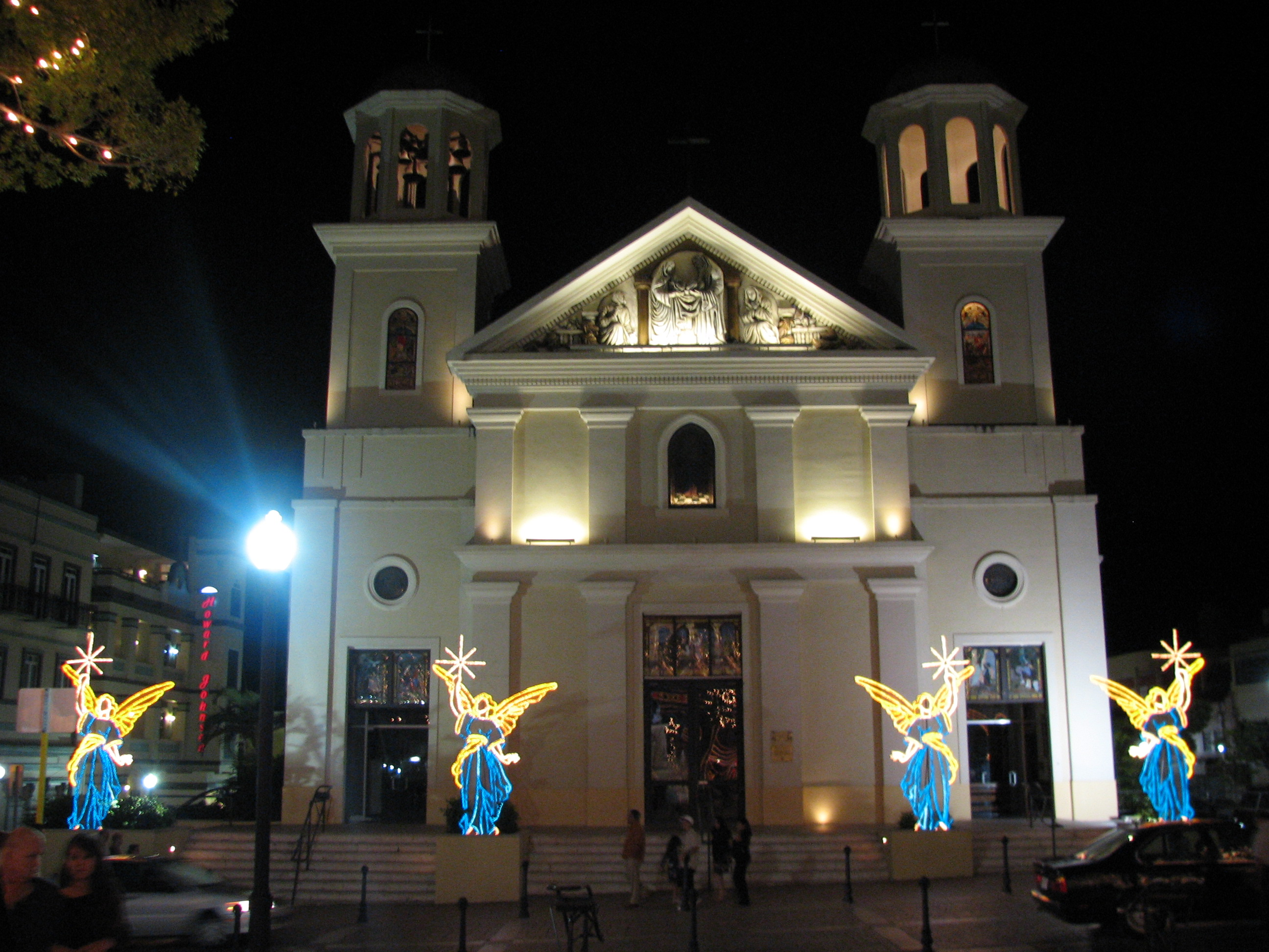 Nuestra Señora de la Candelaria Cathedral; author: Hiram A. Gay; date: 12/24/06